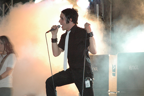 Stephan Groth performing with Apoptygma Berzerk in Cologne